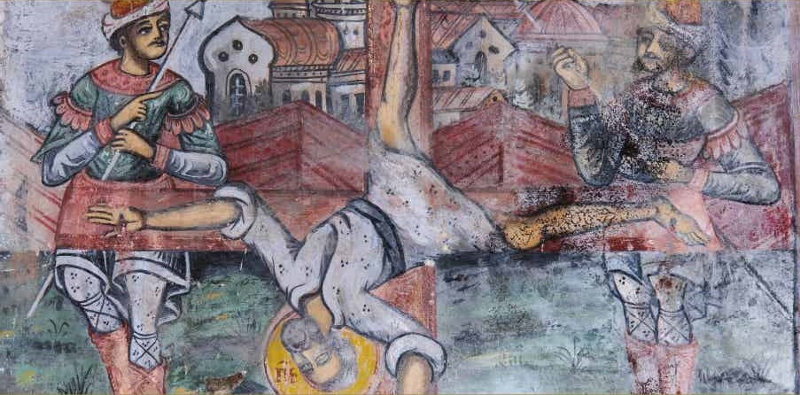 Muldava Monastery Fresco